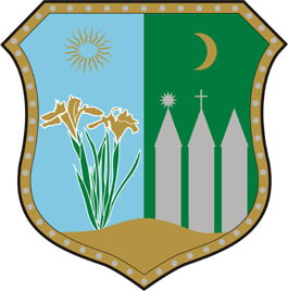 Coat of arms of Nagydorog, Hungary